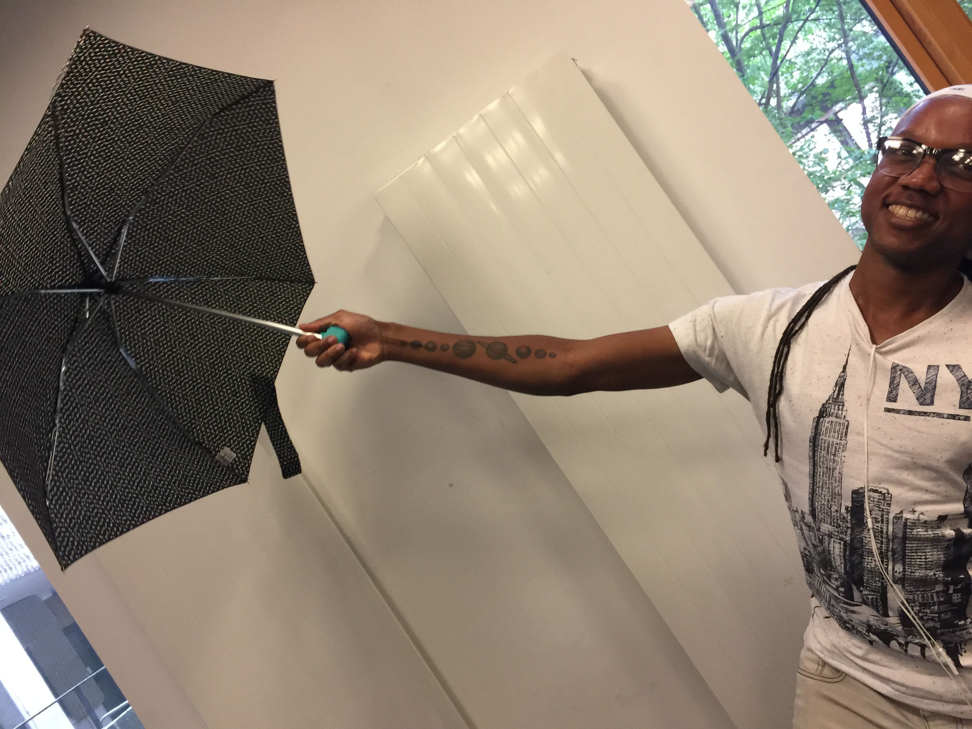 Writer Tendai Huchu in Edinburgh (2019)